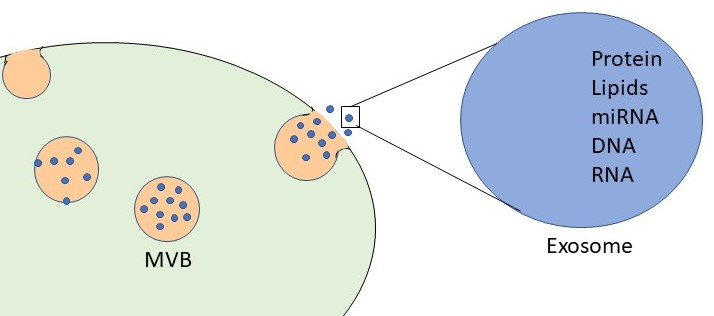 exosomes are 30-150 nm extracellular vesicle containing various cargoes like RNA and proteins